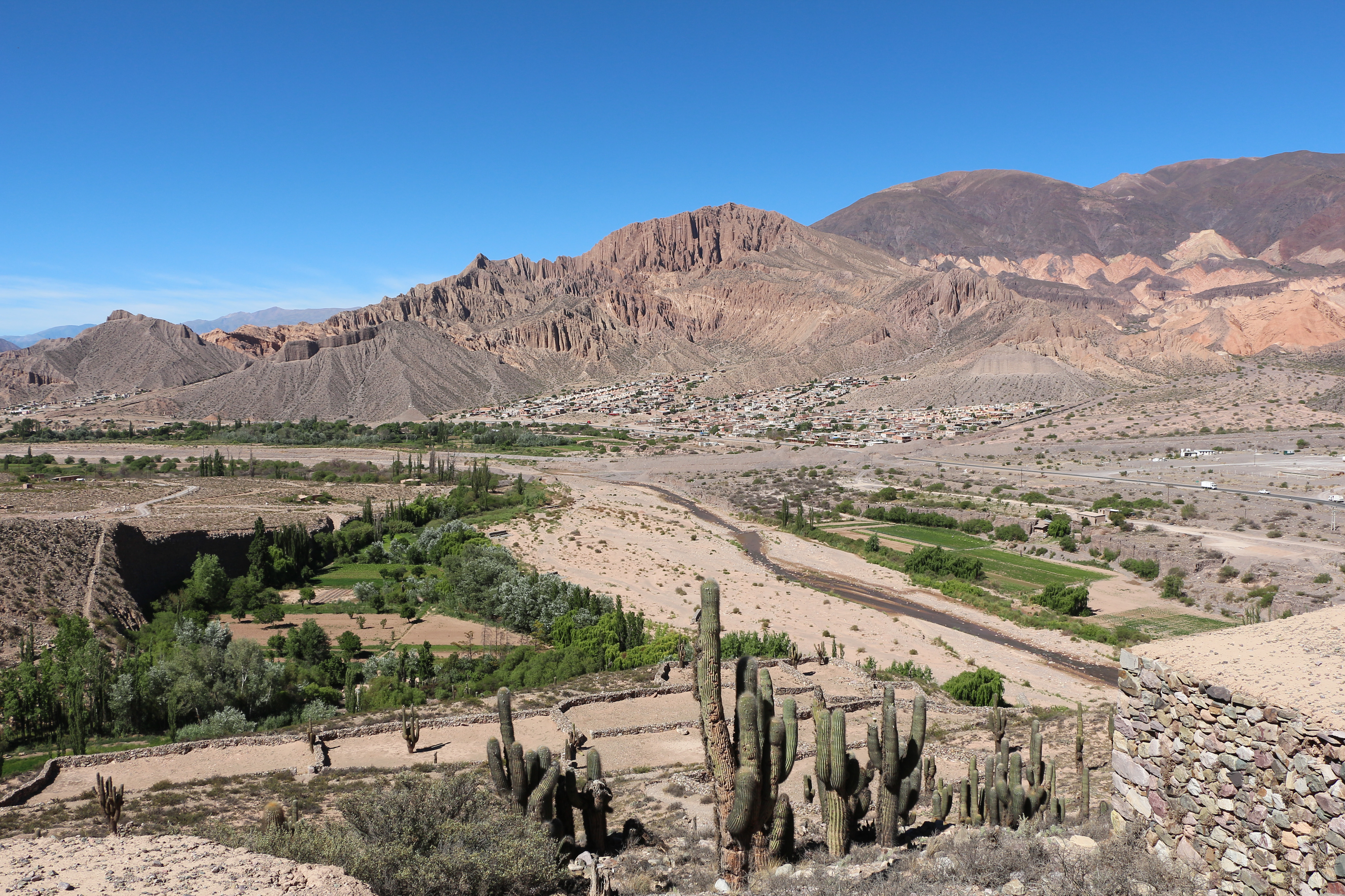 Quebrada de Humahuaca near Tilcara, Argentina